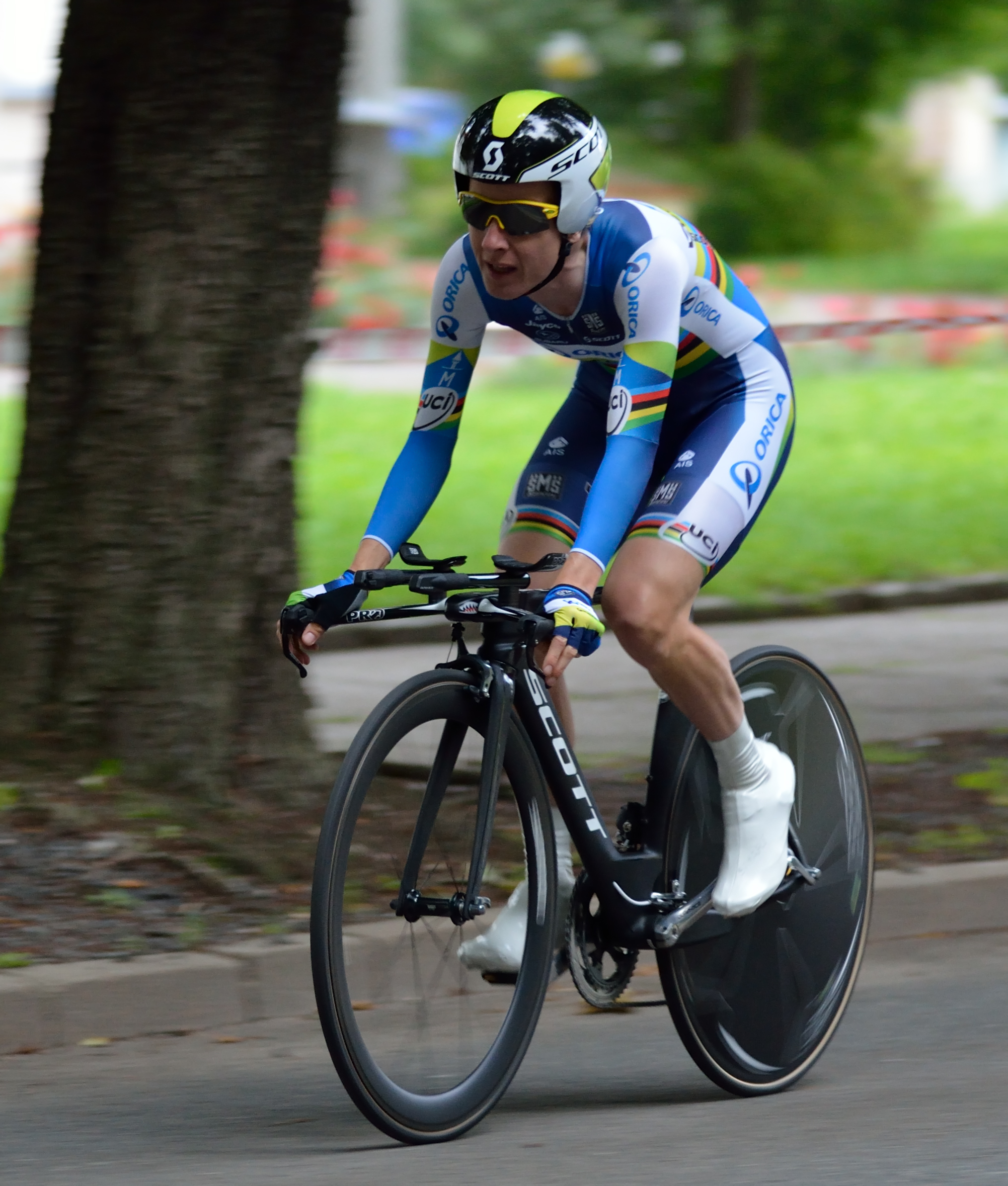 Judith Arndt from the Orica-AIS team during the Women's Tour of Thuringia 2012 in Zwickau, Germany.